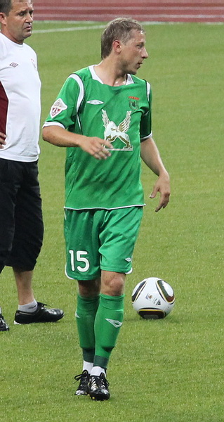 Rafał Murawski